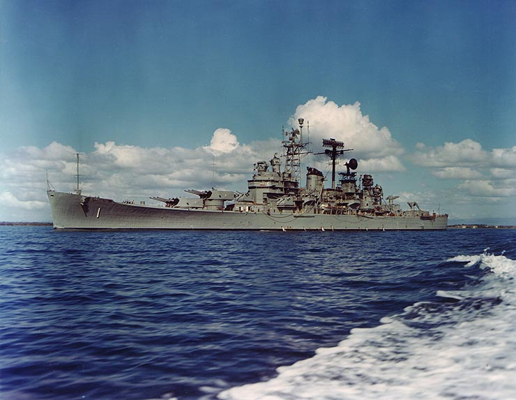 The U.S. Navy guided missile cruiser USS Boston (CAG-1) underway in Guantanamo Bay, Cuba, on 10 January 1967.